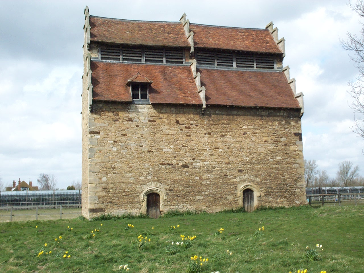 The stone dovecote at Willington, Bedfordshire, England. It is maintained by the National Trust.